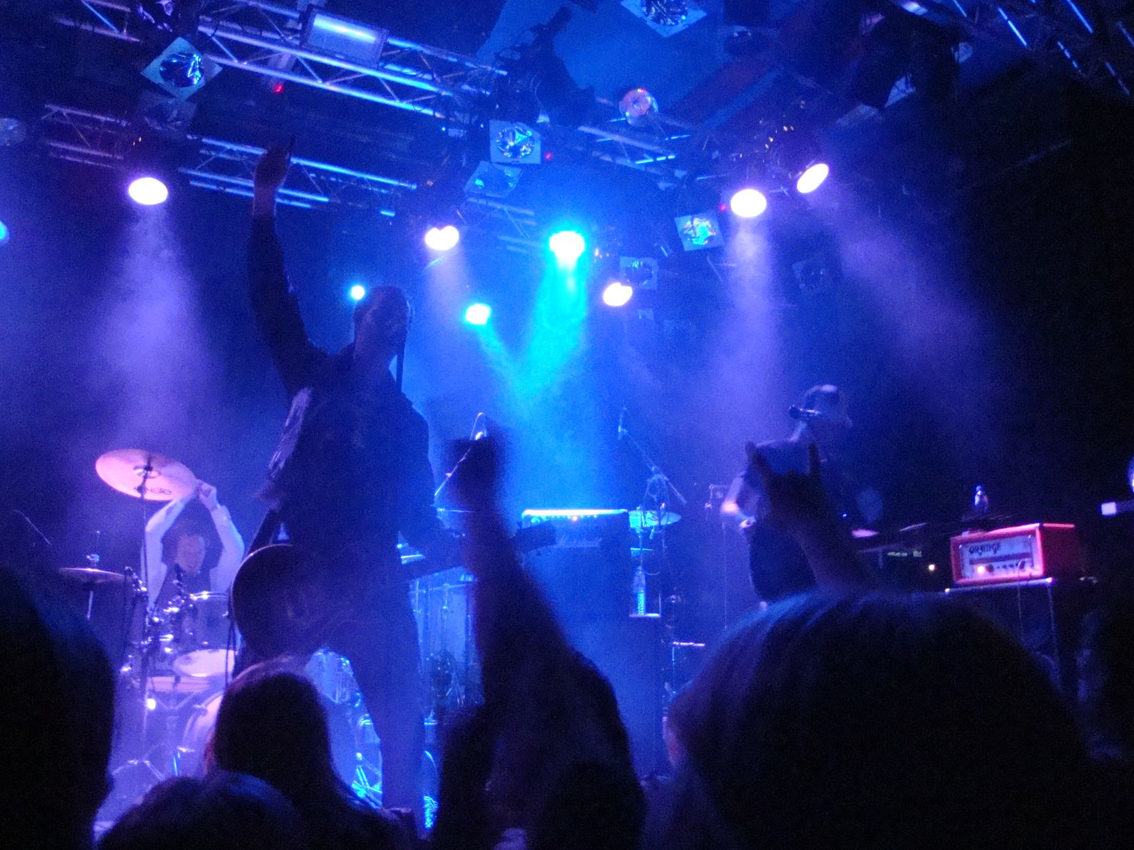 Daybroke live @ Effenaar, Eindhoven (April 2009)